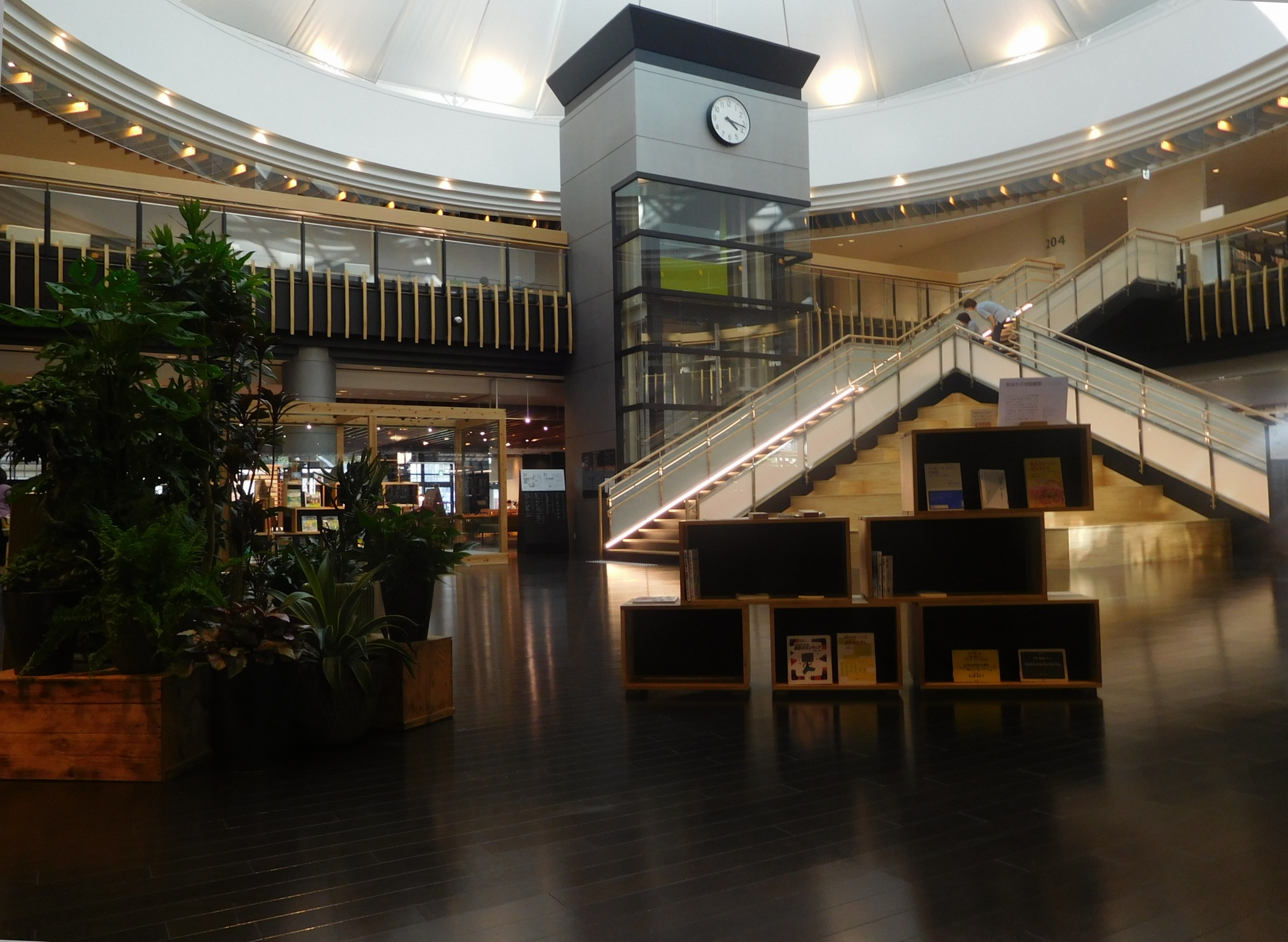 Miyakonojo City Library, at Mallmall (Miyakonojo City, Miyazaki Prefecture, Japan)